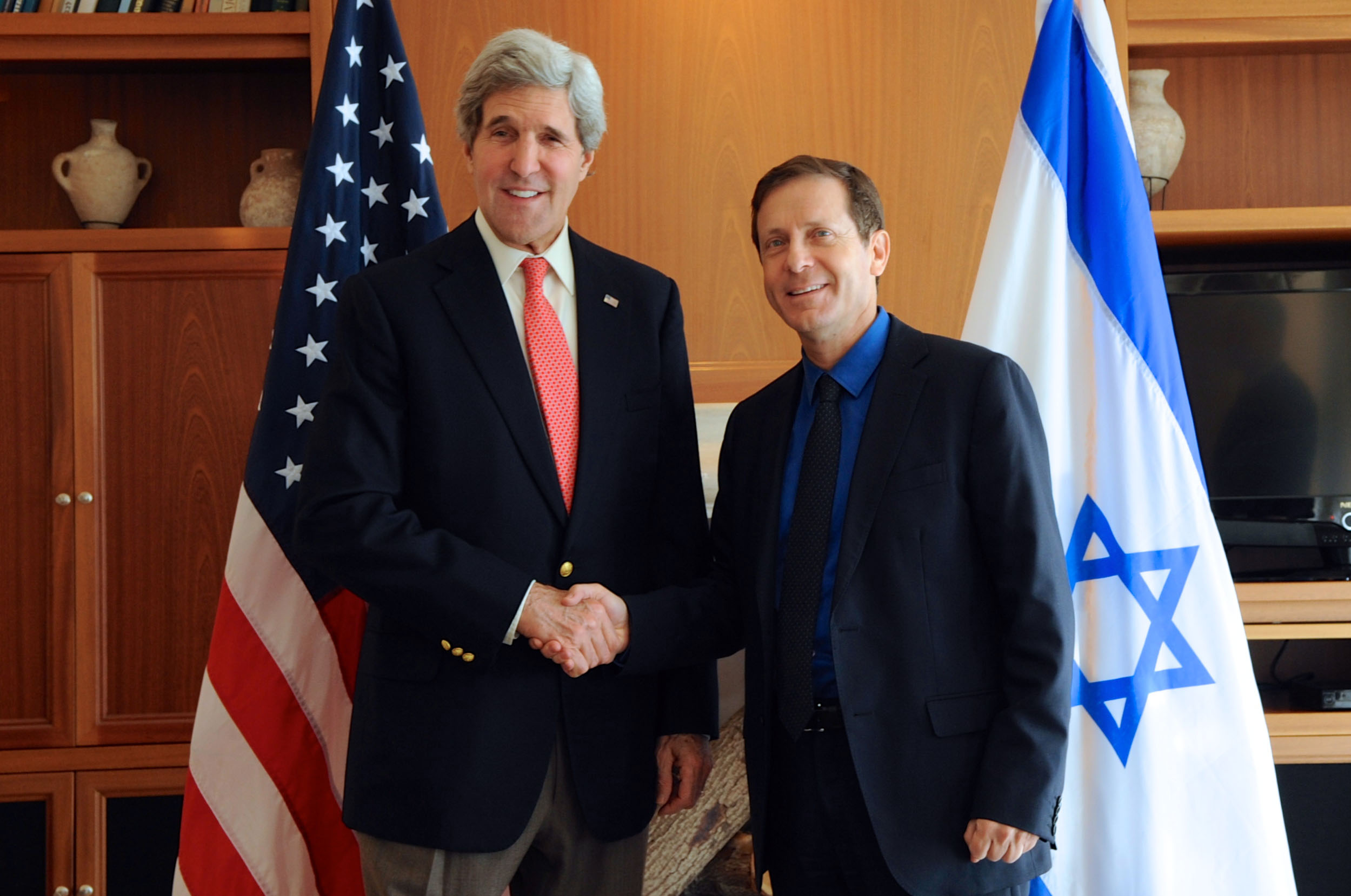 U.S. Secretary of State John Kerry poses for photographers with Israeli Labor Party Leader Isaac Herzog before the two held a meeting in Jerusalem on January 6, 2014. [State Department photo/ Public Domain]